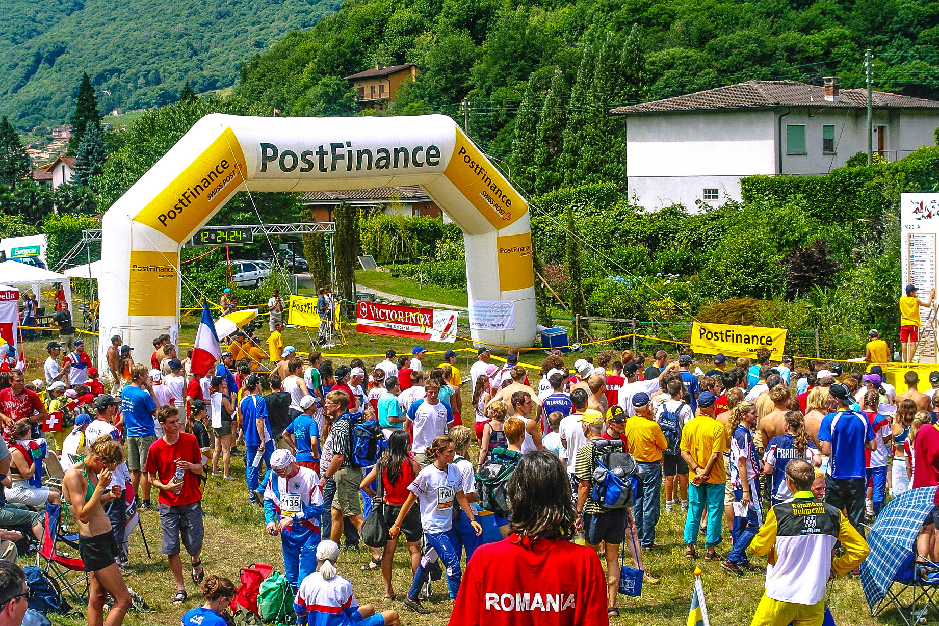 2005 Junior World Orienteering Championships in Switzerland...middle distance competitions near Taverne...